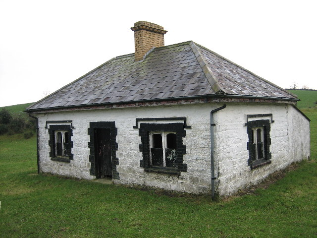 Abandoned Gate Lodge.